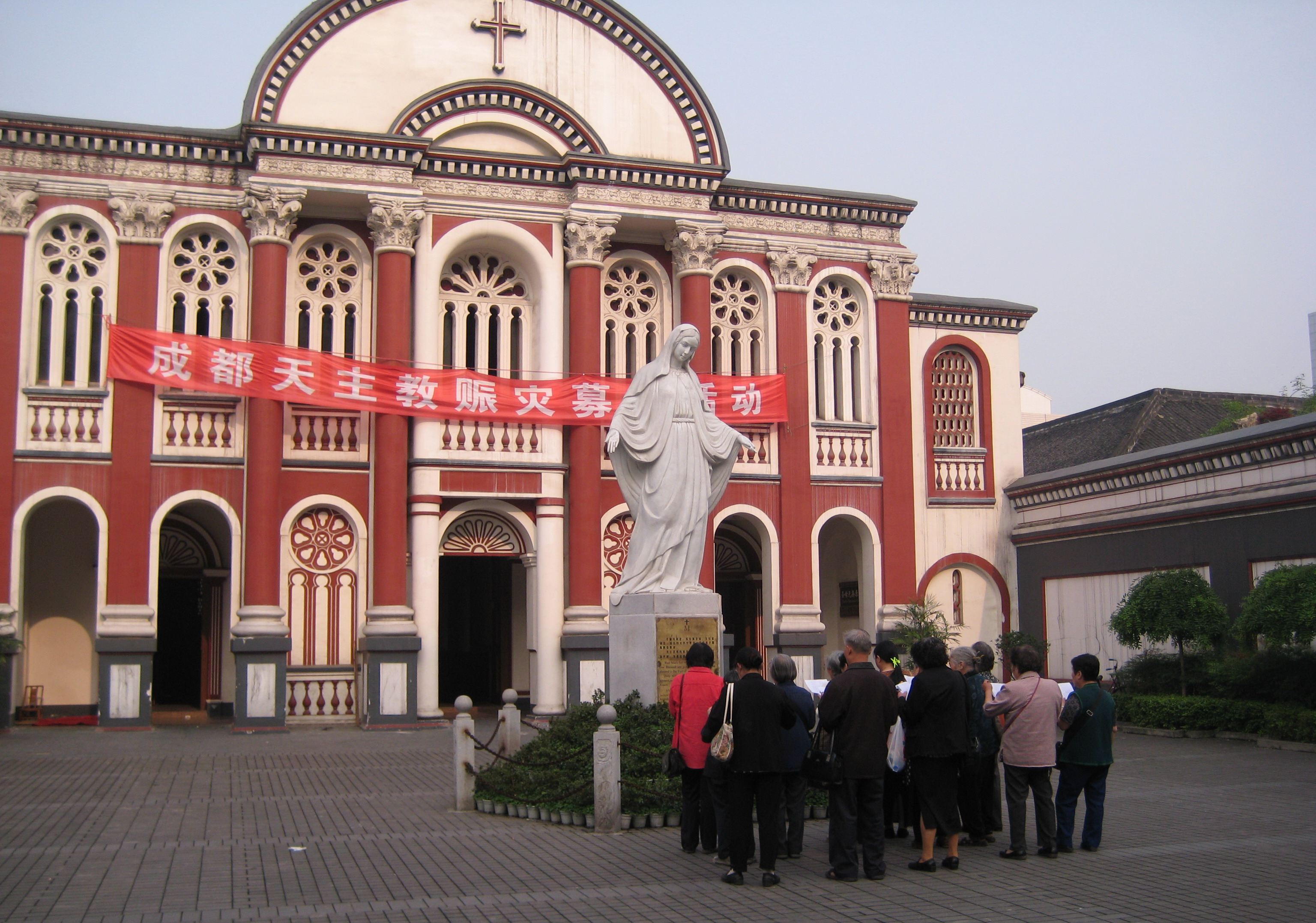 google internet translator gives: Chengdu Green Bridge Church. Taken in May 23, 2008 as early as 8:00, Chengdu peace arch bridge of the Catholic Church before the picture shows the Madonna in front of a group of Catholics for the "5.12" earthquake in prayer